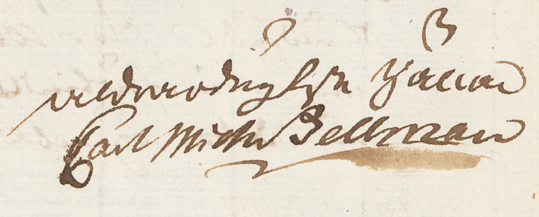 Carl Michael Bellman's signature from the signature Collection at National Library of Sweden.